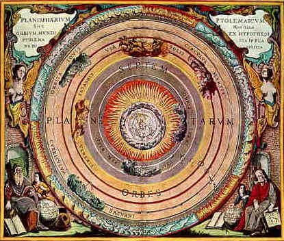 A depiction of the Ptolemaic system of the universe